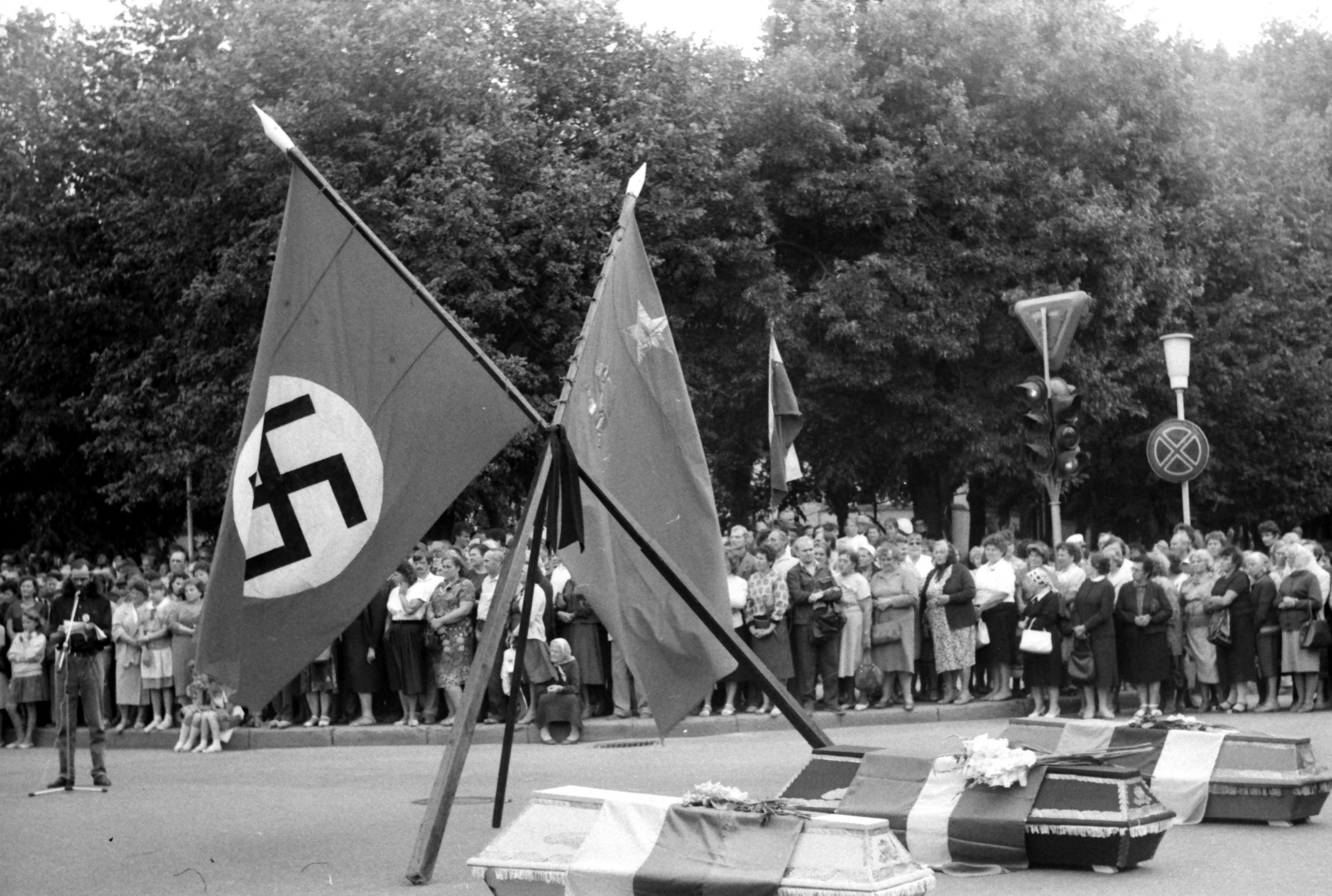 Baltic Way meeting, 1989-08-23, Šiauliai, Lithuania